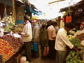 Ooty Market